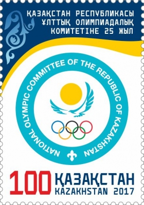 1042. Memorable and anniversary dates. 25 years Anniversary of the National Olympic Committee of the Republic of Kazakhstan